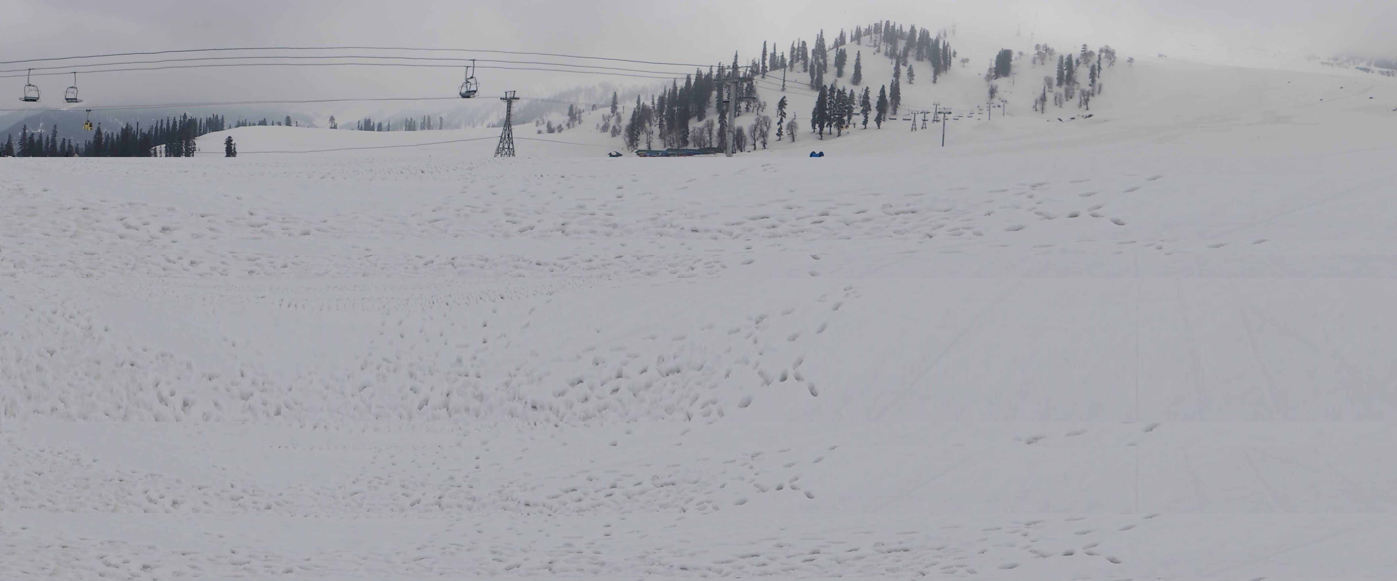 Gulmarg